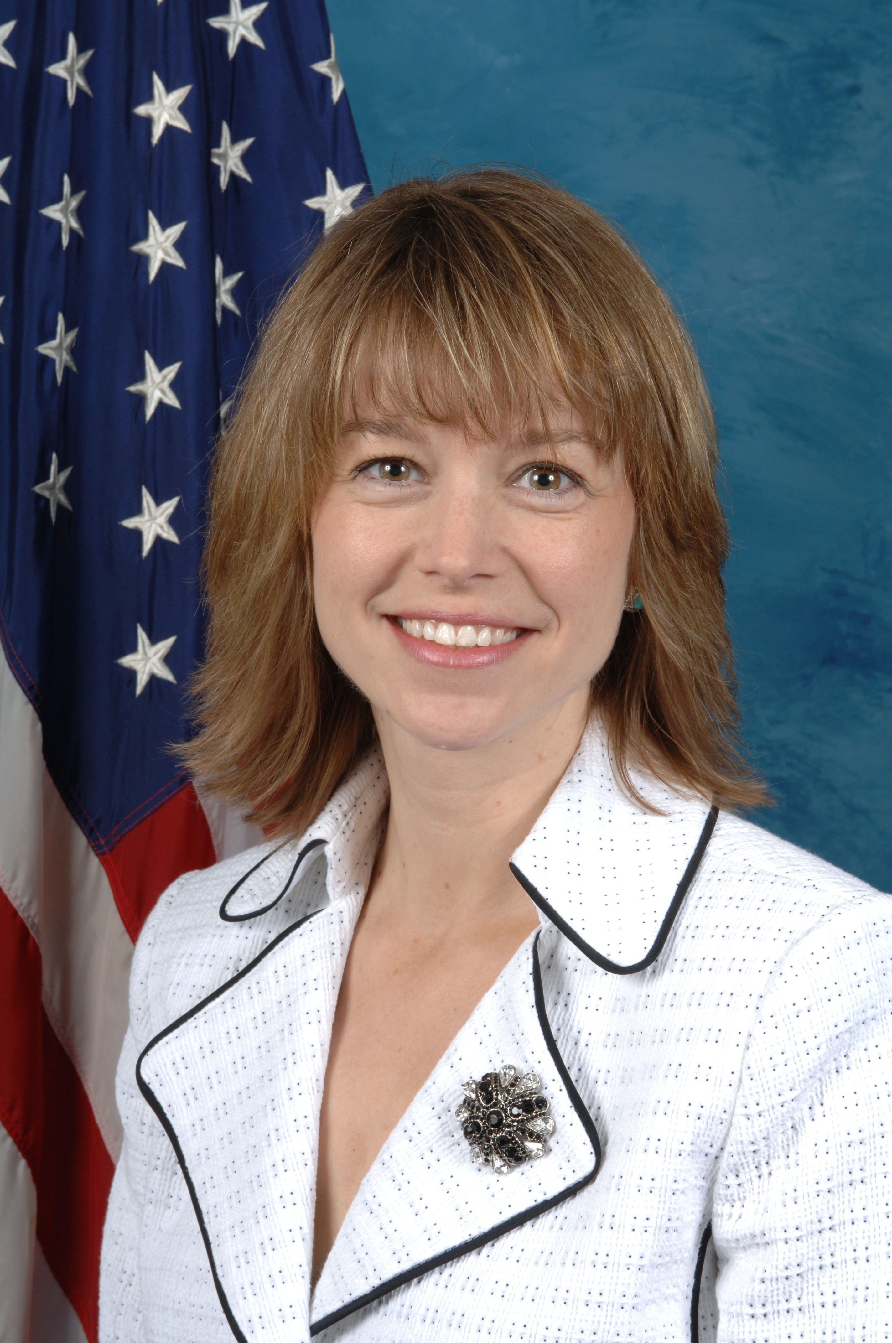 Stephanie Herseth, U.S. Congresswoman.